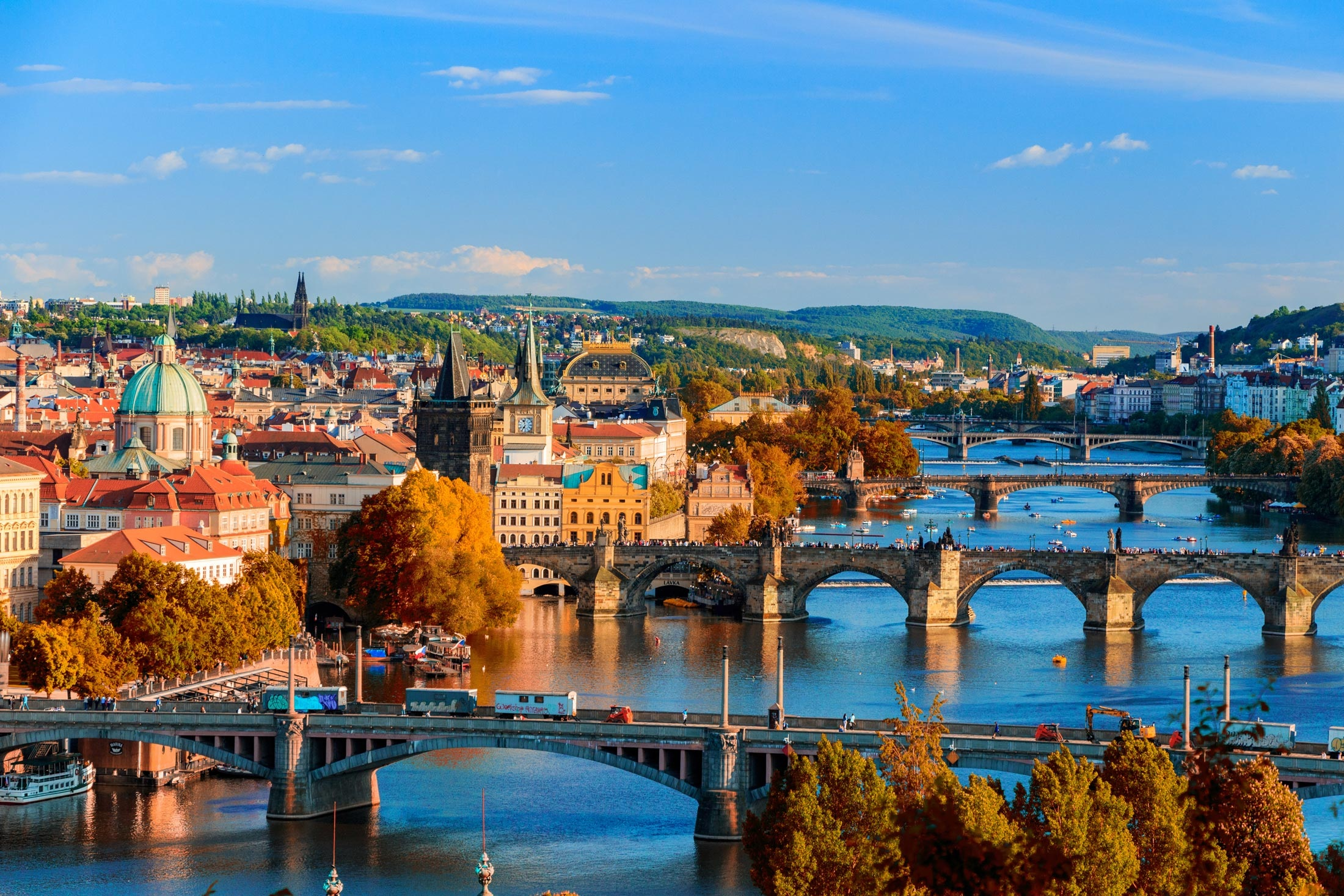 Prague Czech quality image